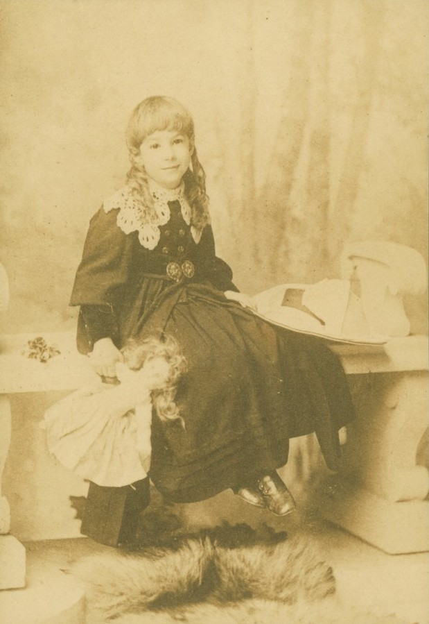 Identifier: A1621-00619 Date: 1906-10 Decade: 1900-1909 Types: Serial , Page Subjects: Children , Authors , Women authors Rights: NO COPYRIGHT - UNITED STATES Permalink: Description: Photograph of Sara Teasdale as a young girl